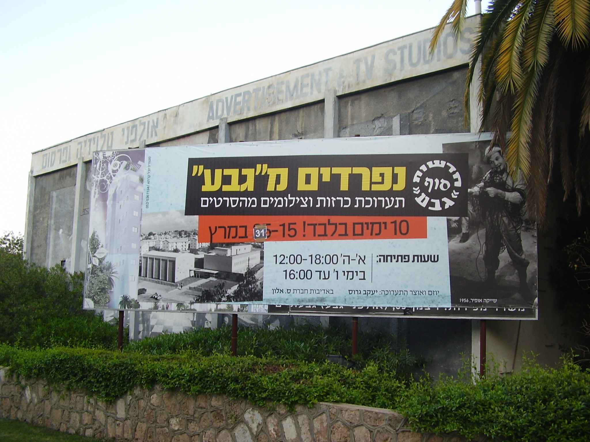 geva studius in giv\'ataym